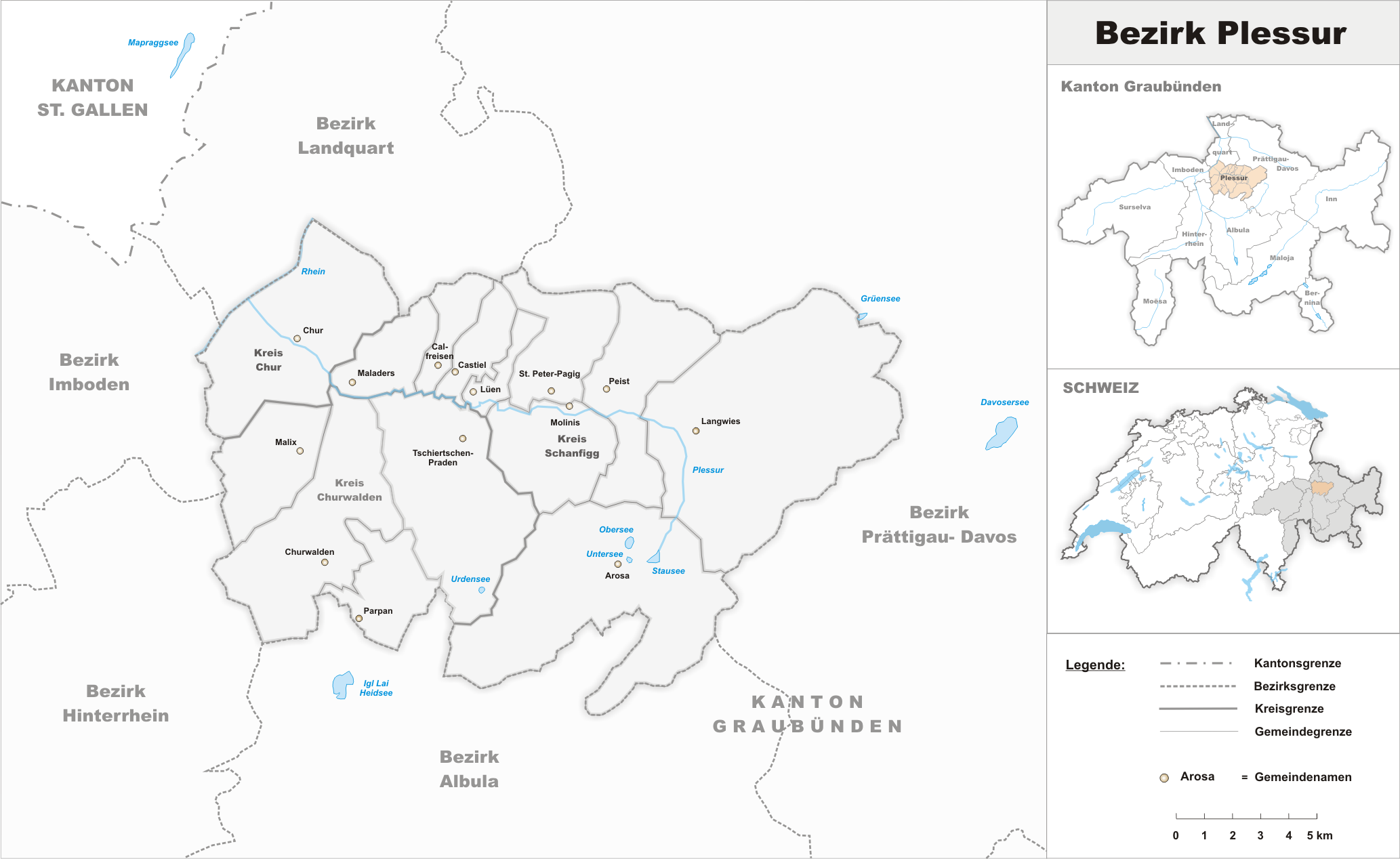 Municipalities in the district of Plessur to 2009